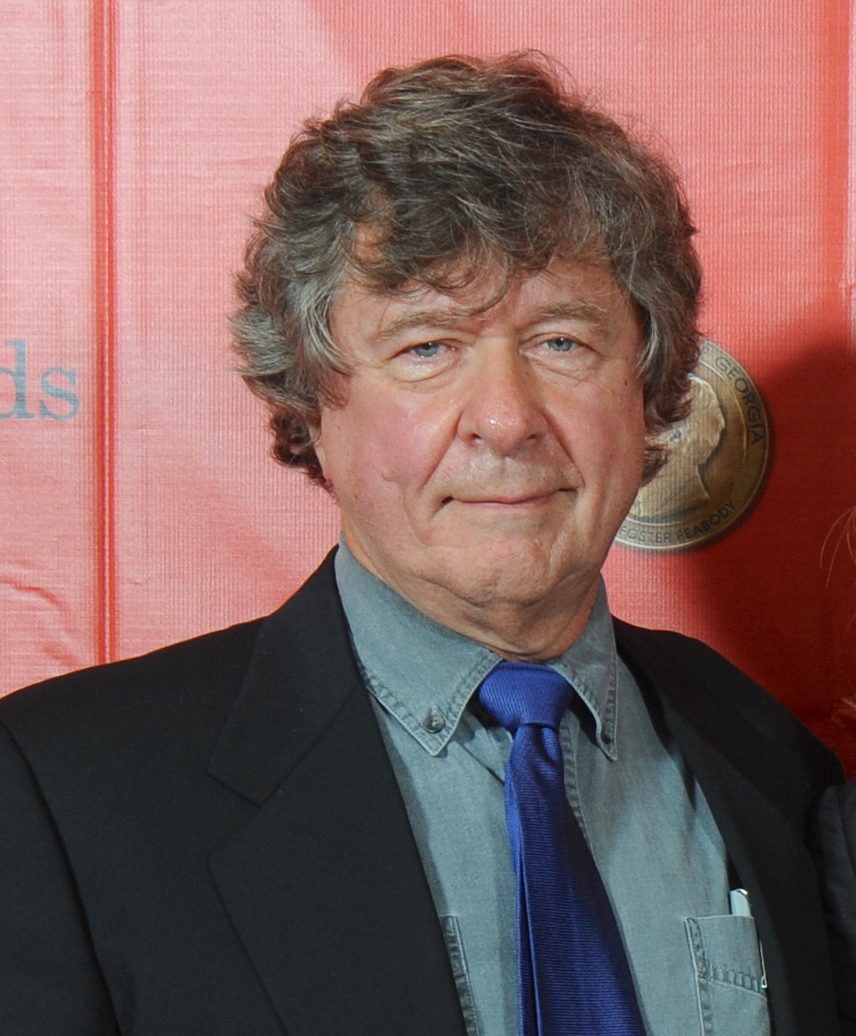 Martyn Burke at the 72nd Annual Peabody Awards ceremony and luncheon, in May 2013, held at the Waldorf-Astoria Hotel, in New York. PHOTO CREDIT: ANDERS KRUSBERG / PEABODY AWARDS